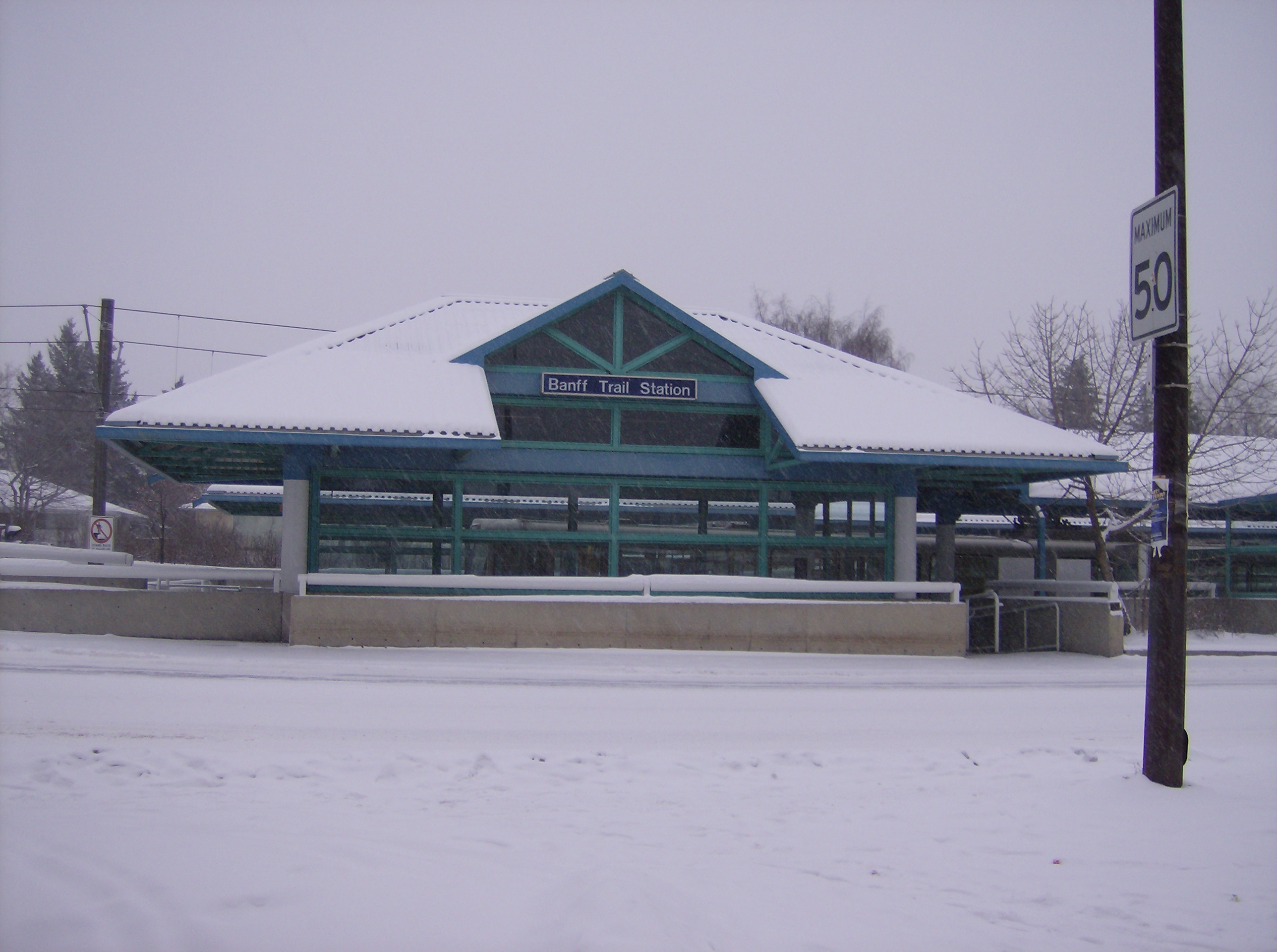 Banff Trail (C-Train)